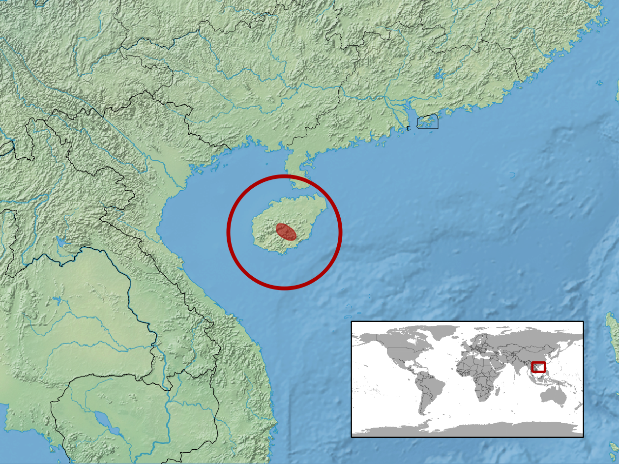 geographic distribution of Ophisaurus hainanensis syn Dopasia hainanensis (Native: China (Hainan))